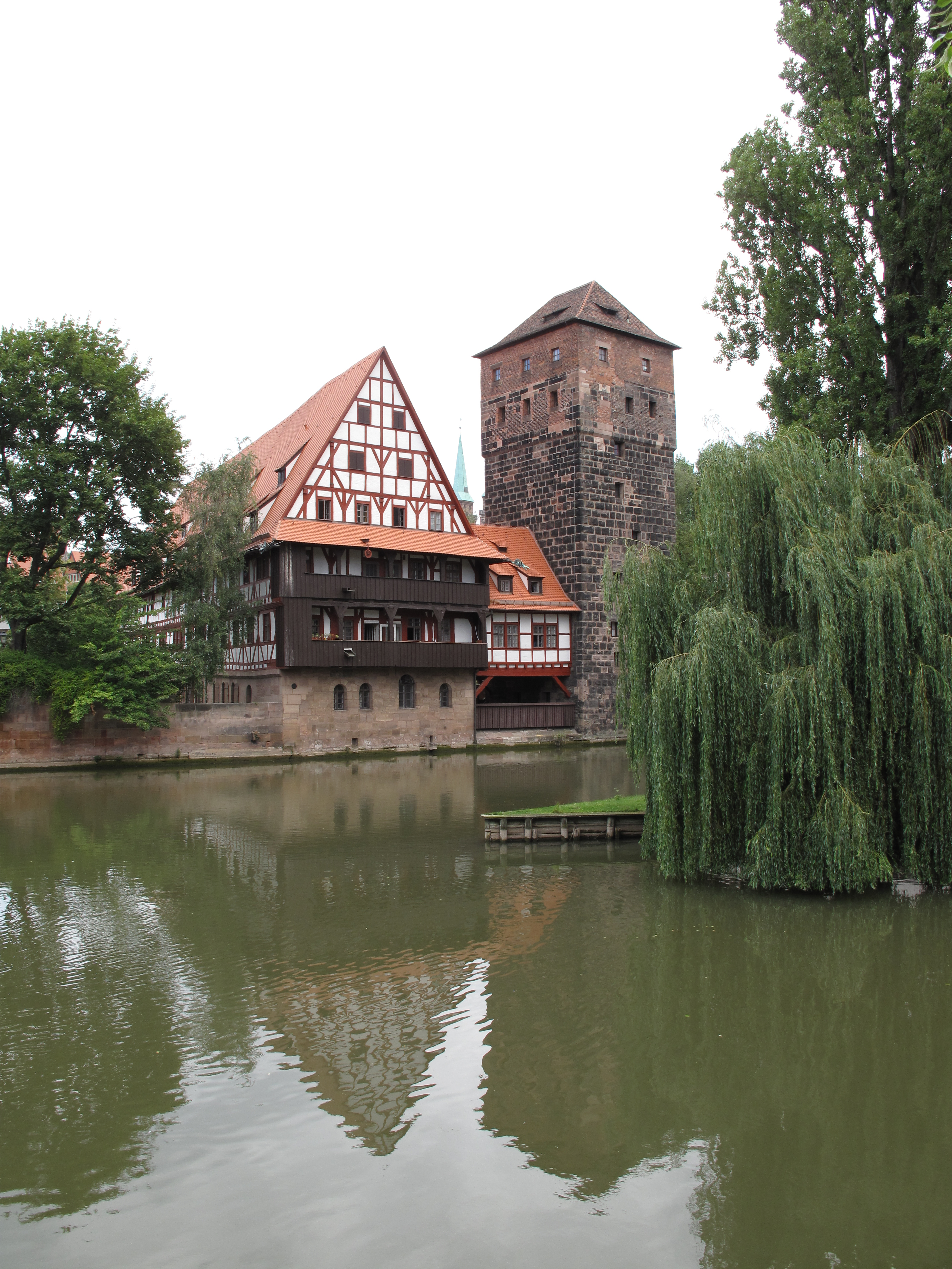 The Pegnitz (river) with the Wasserturm (tower) of Nürnberg in the background.